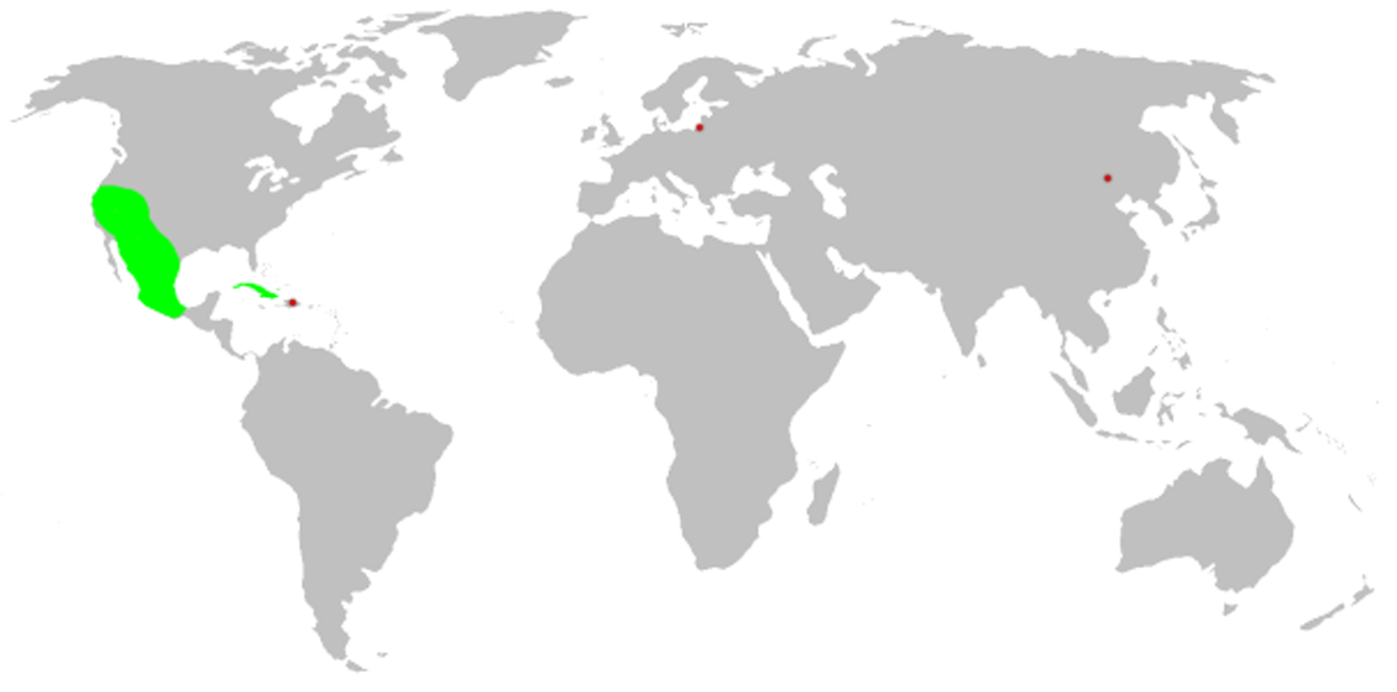 Plectreuridae habitat distribution (green), drawn after Platnick: World Spider Catalog 7.0, with fossil locations after Selden (2010) indicated (red).